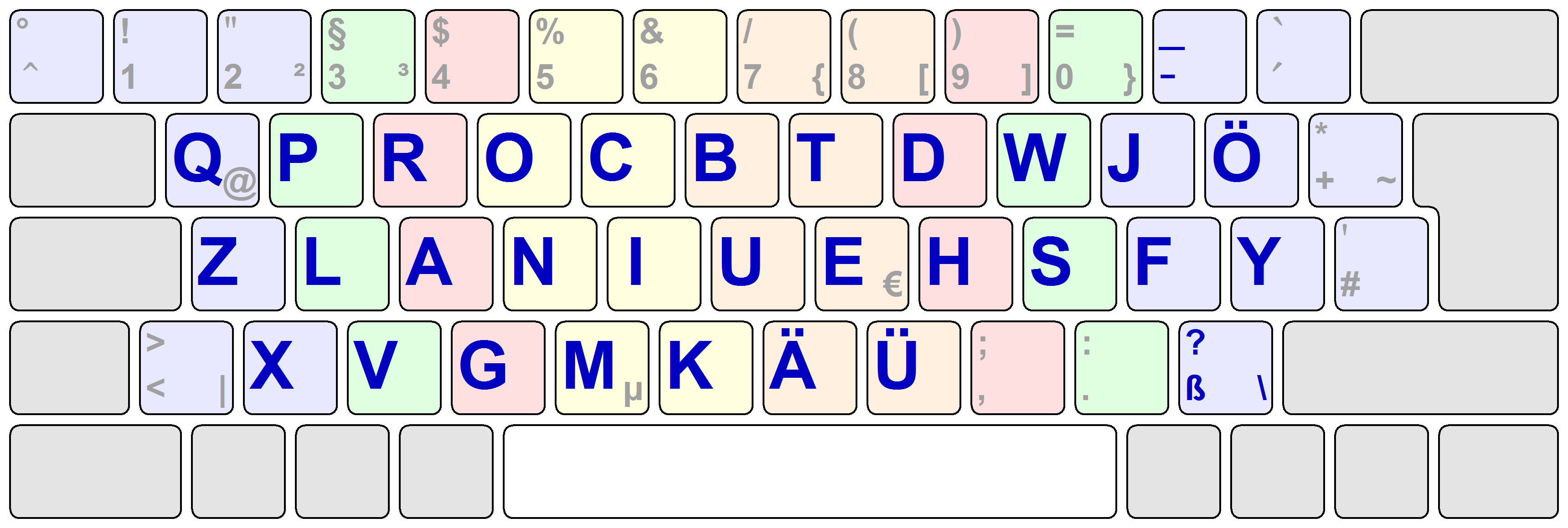 An alternative German keyboard layout developed 2005, named after the initial syllabes of its developer’s names.